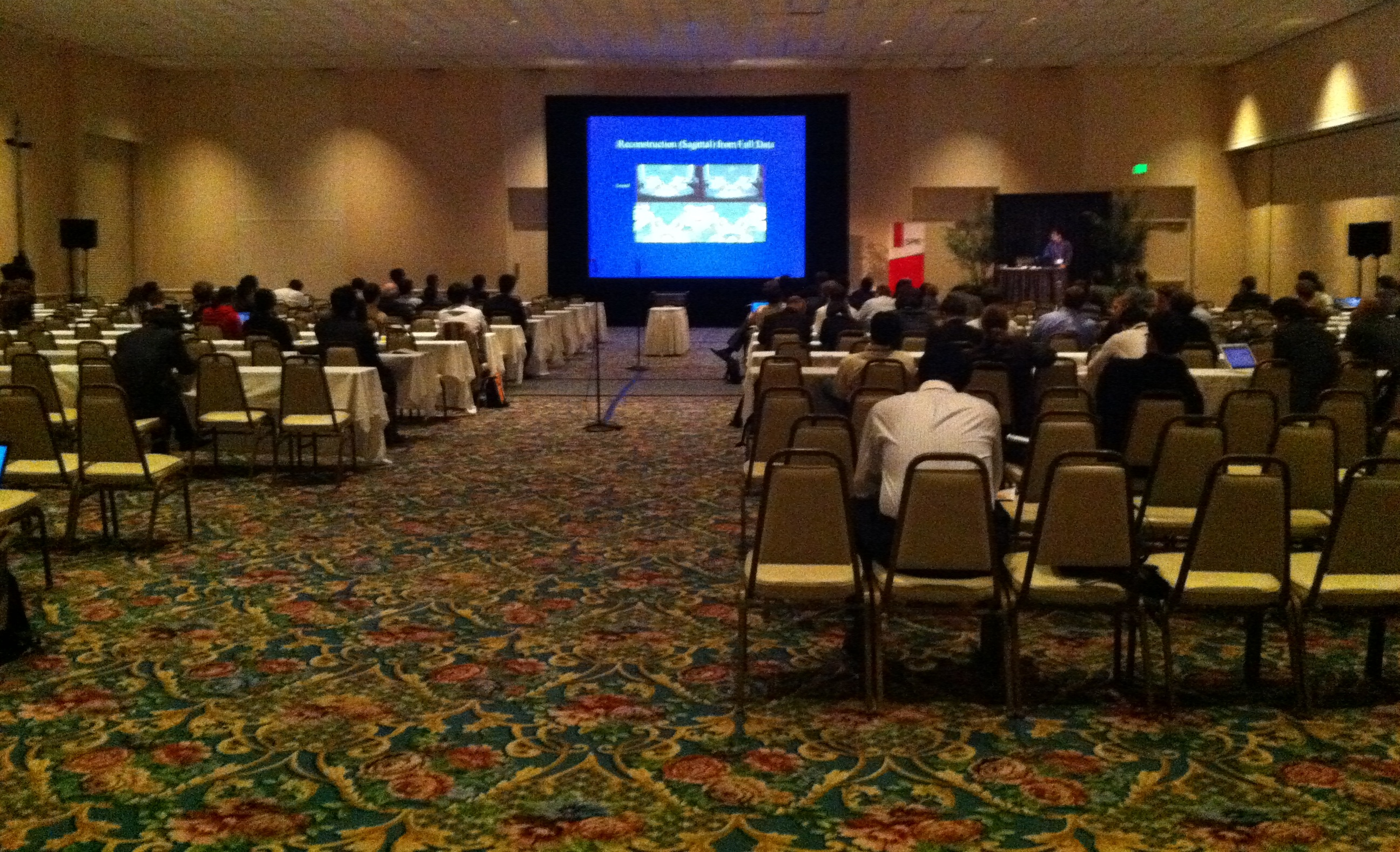 One of the lectures at the SPIE Medical Imaging conference. Town & Country Resort, San Diego, CA. Feb 2012.